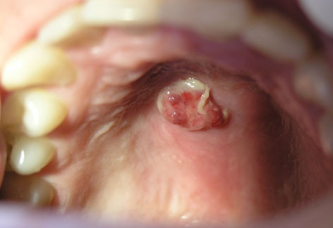 Extragingival pyogenic granuloma. Clinical appearance: an exophytic pedunculated lesion with pseudomembrane on the surface.